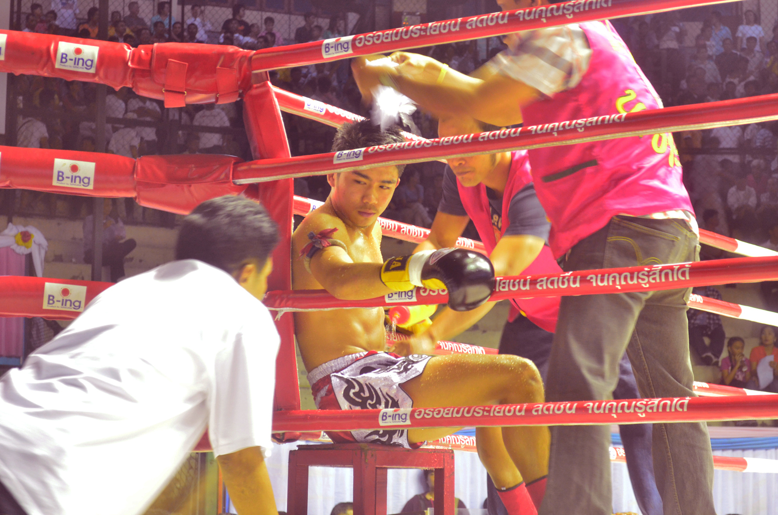 Prajanchai Por. Petnamtong